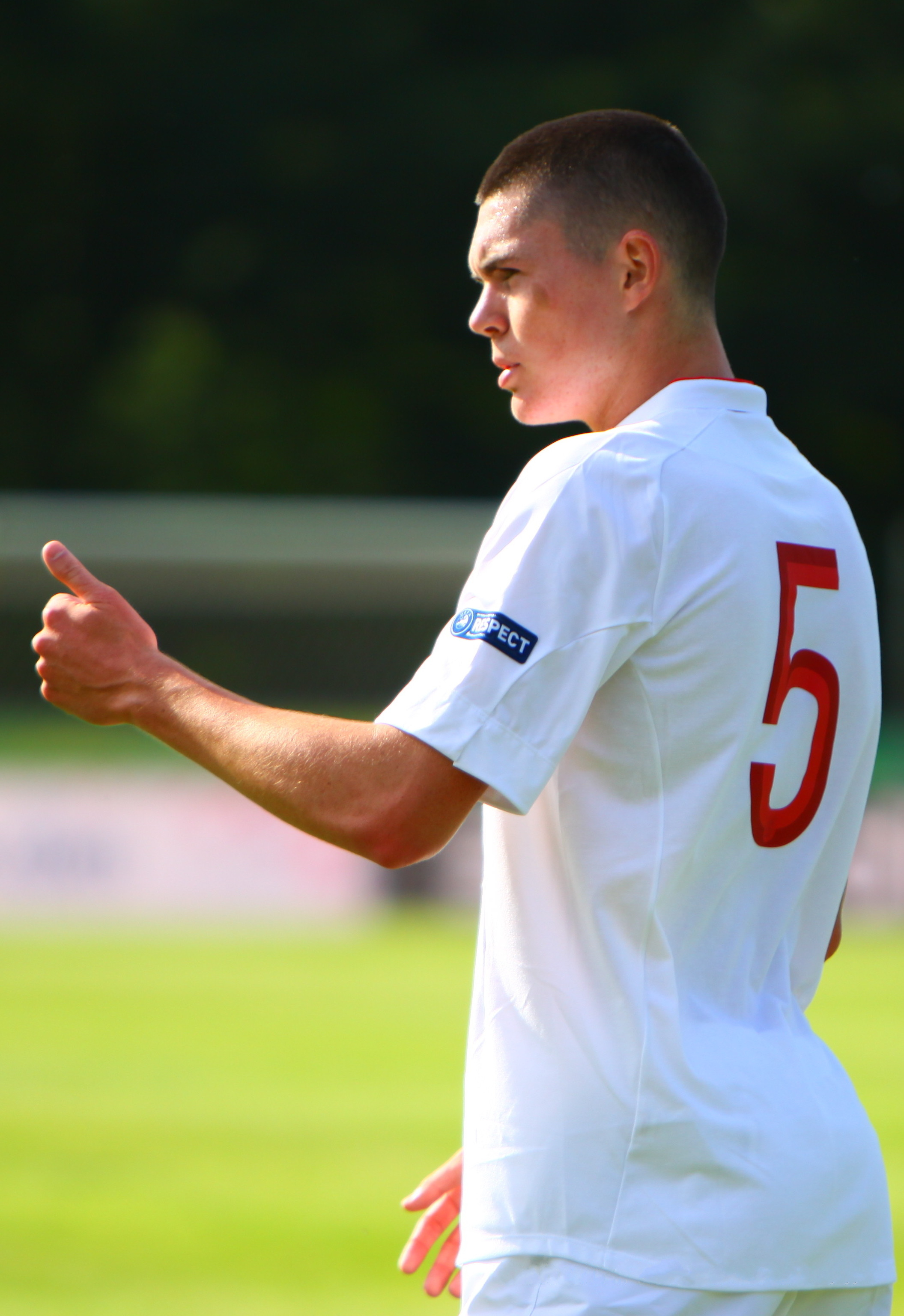 Michael Keane playing for England U-19